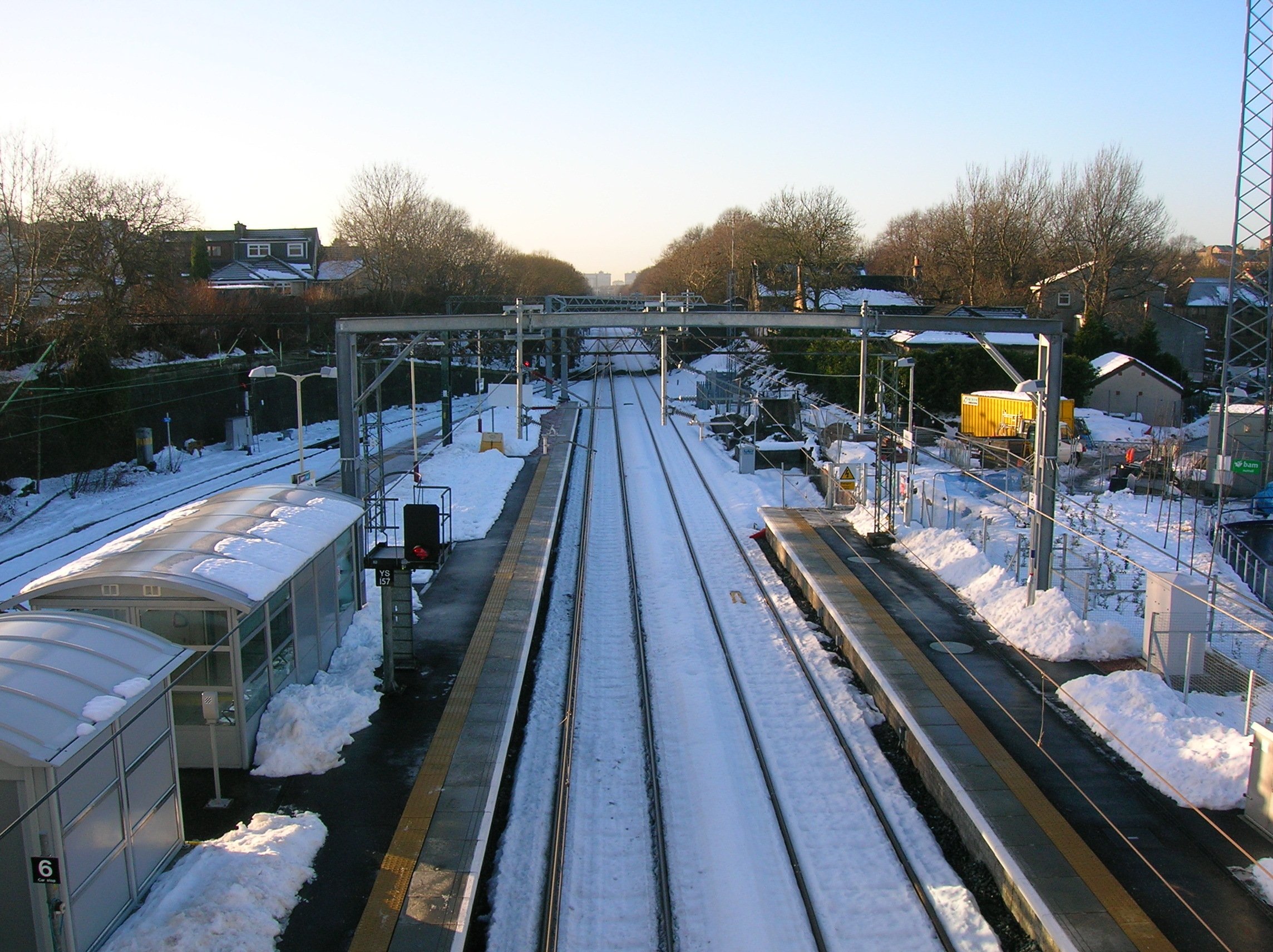 Airdrie station looking west. First day of rail services between Airdrie and Bathgate. Scotland.